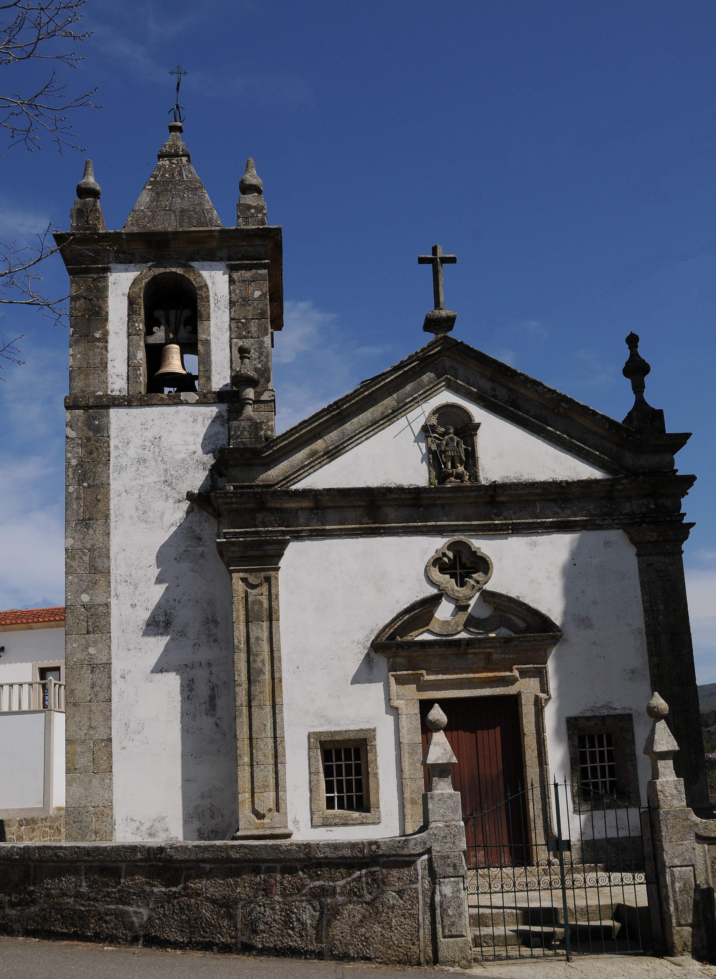 Messegães Church, in Messegães, Monção, Portugal